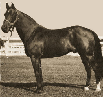 Adios (1940–1965) was an outstanding American Standardbred sire.